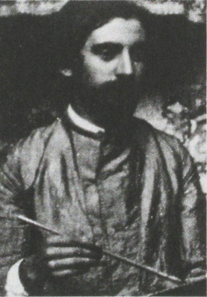 Émile_Bernard_(1861-1941)_when_painting.